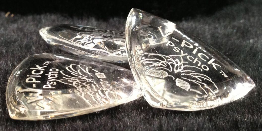 Pile of 3 Psychos